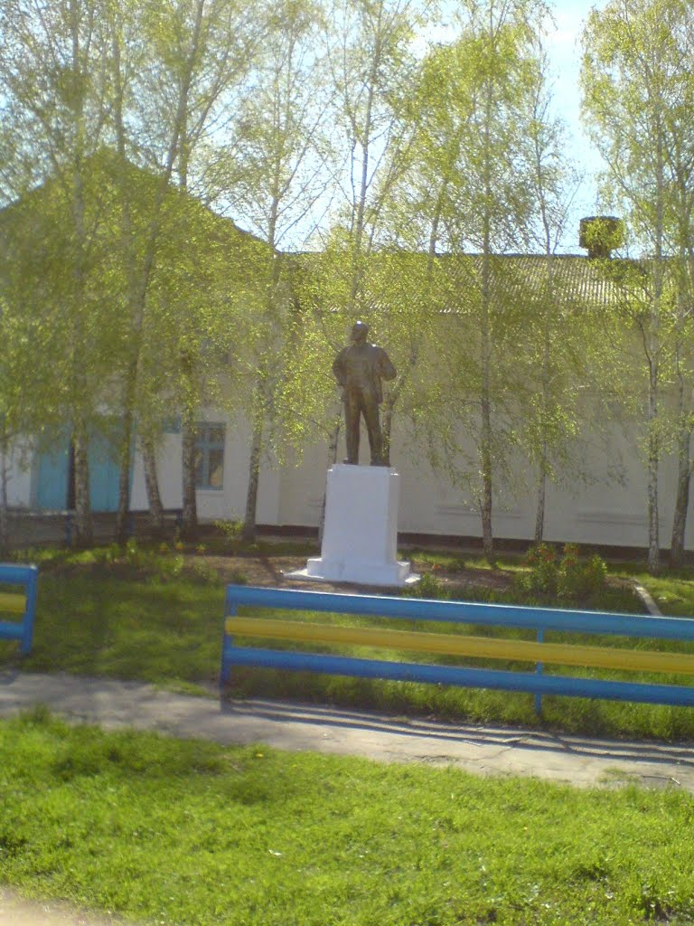 Lenin monument in Novopylypivka, Melitopol Raion